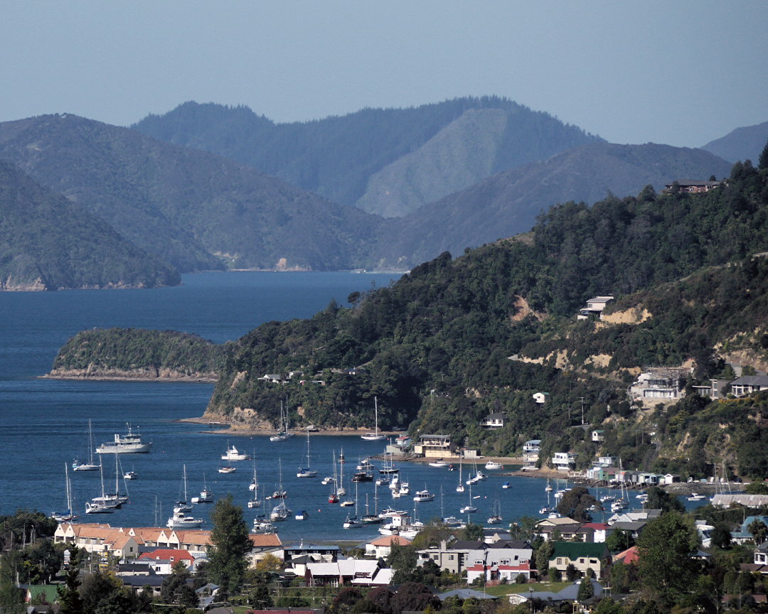 Waikawa Bay, Marlborough, New Zealand. Photographed from The Snout track.